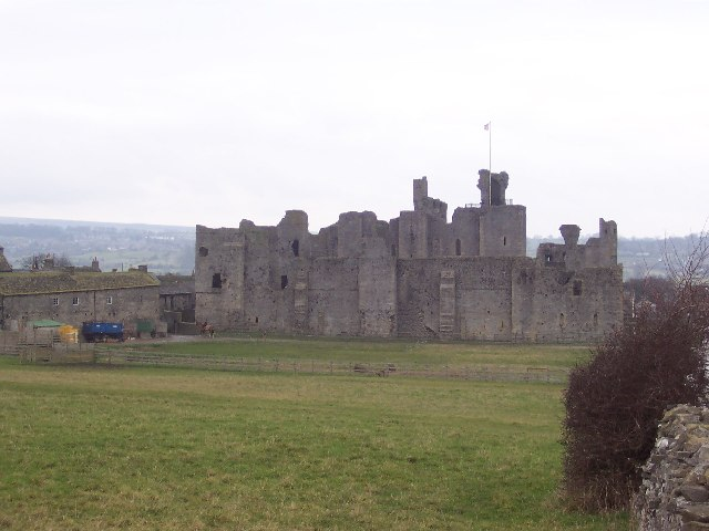 Middleham Castle from the South, near to Middleham, North Yorkshire.